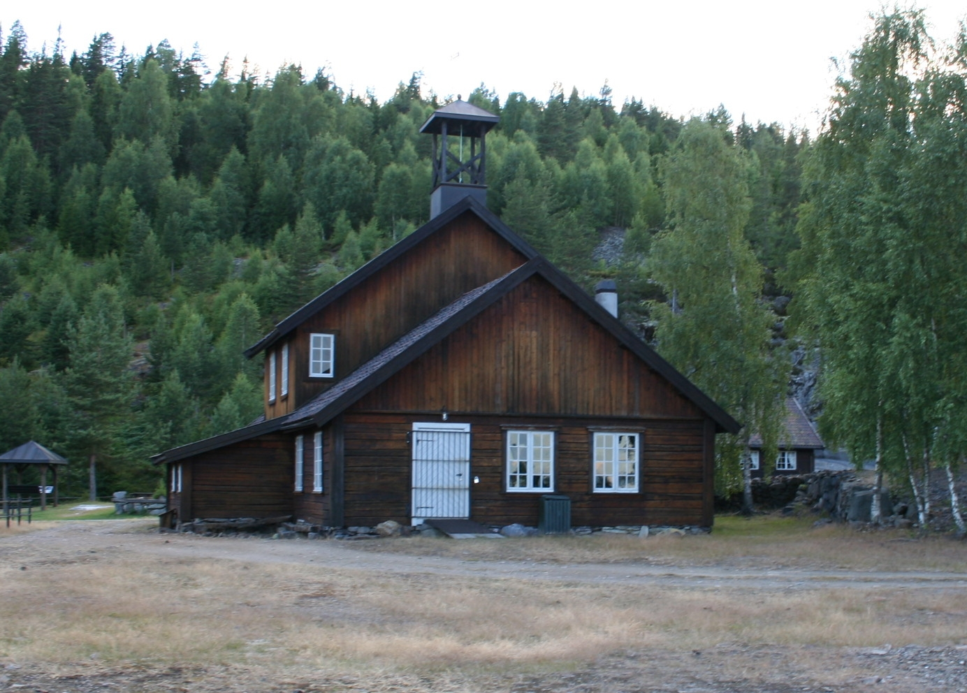 Scheidehus at Blaafarveværket, Modum, Buskerud in Norway. The building was built some time in the early 1800s.